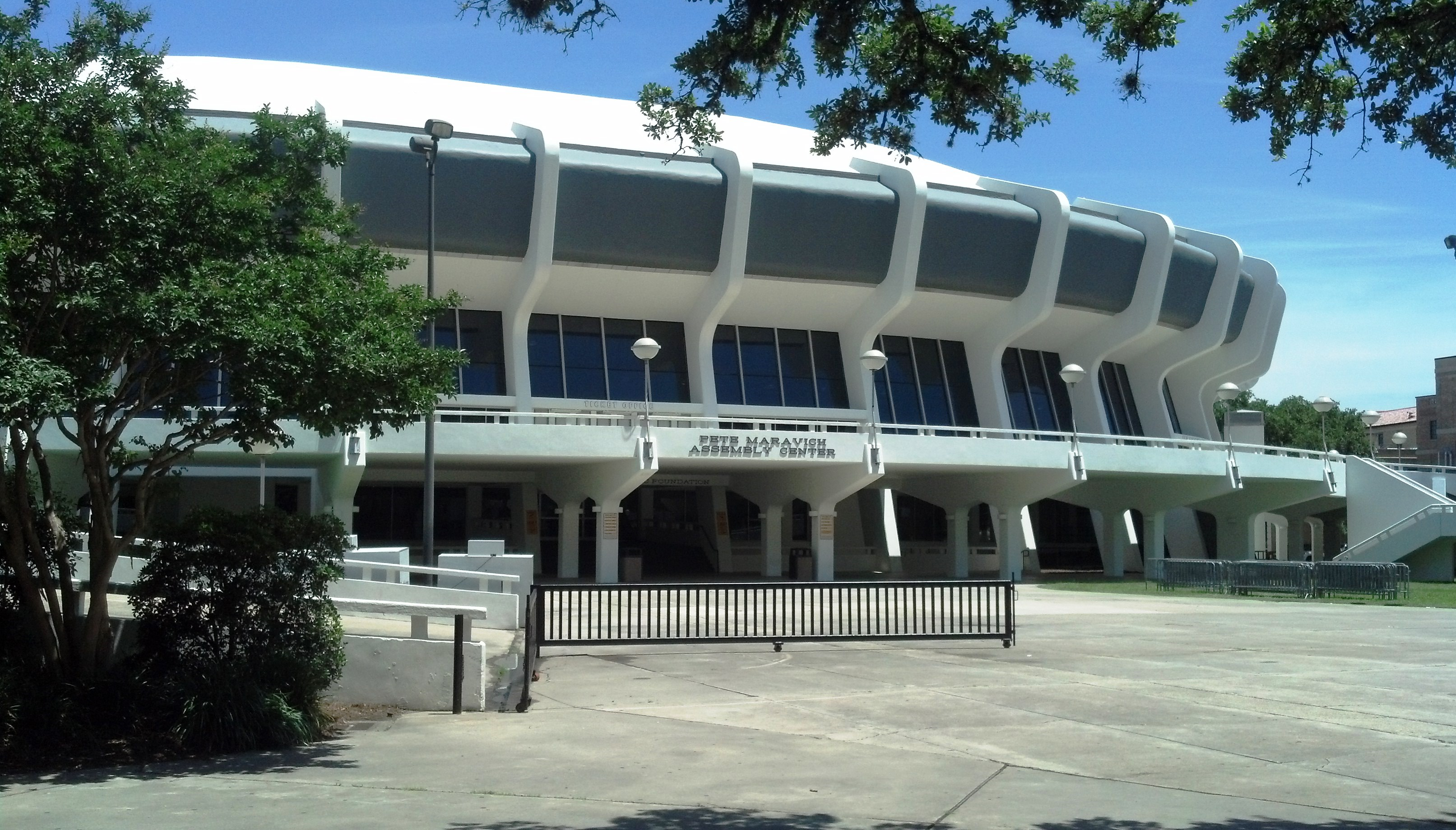 Pete Maravich Assembly Center (Baton Rouge, LA)